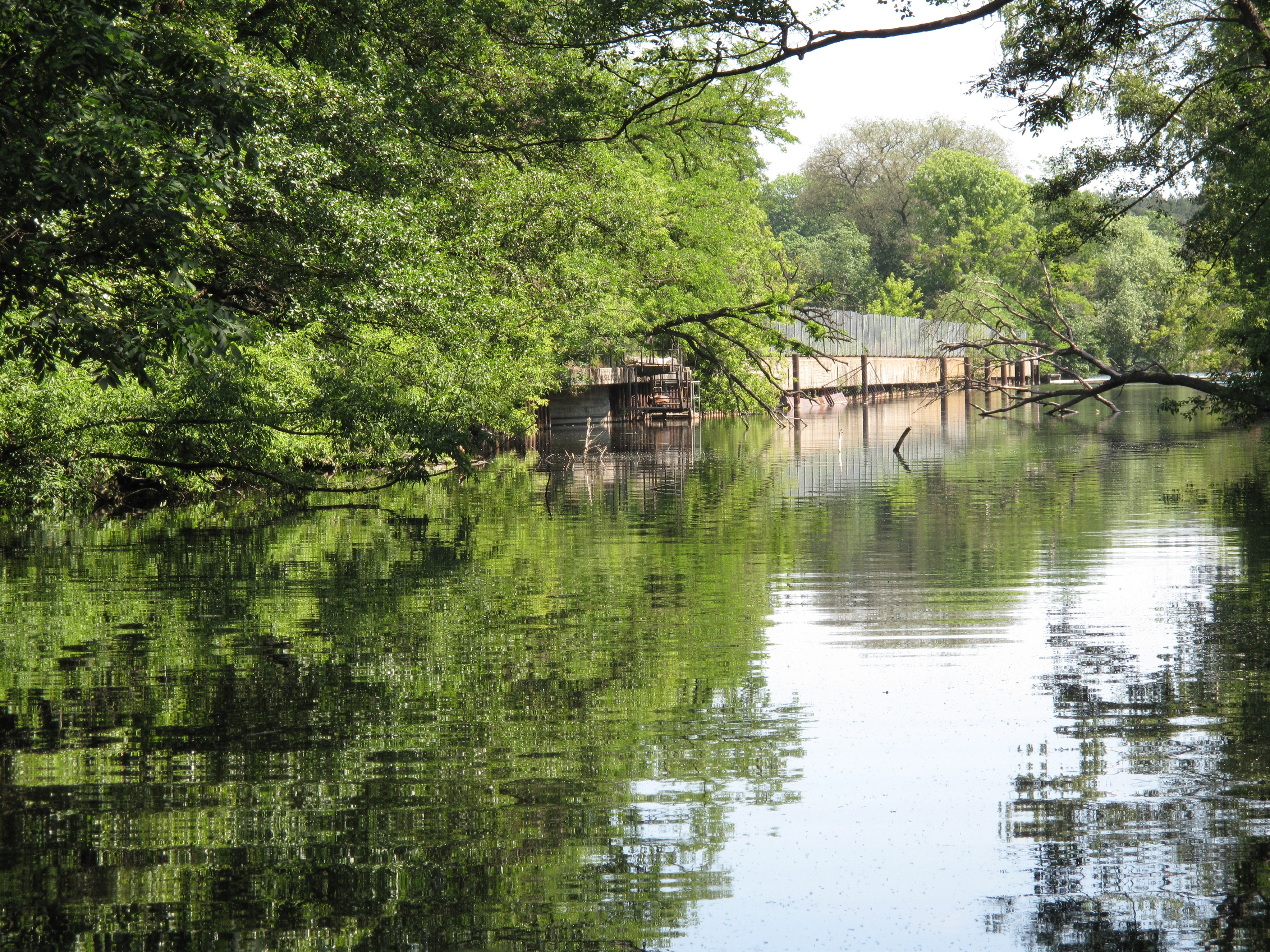 The Teufelsseekanal is a branch canal of the river Havel in Berlin, Borough Spandau, locality Hakenfelde. On the northern bank there was in operation until 2002 the power station „Kraftwerk Oberhavel“, which was demolished between 2005 and 2009. At the mouth to the river Havel spans the Oberhavelsteg the canal. The cable-stayed foot- and bikeway bridge is part of the Berlin-Copenhagen Cycle Route and of the Havel Cycle Route (german: Havelradweg).